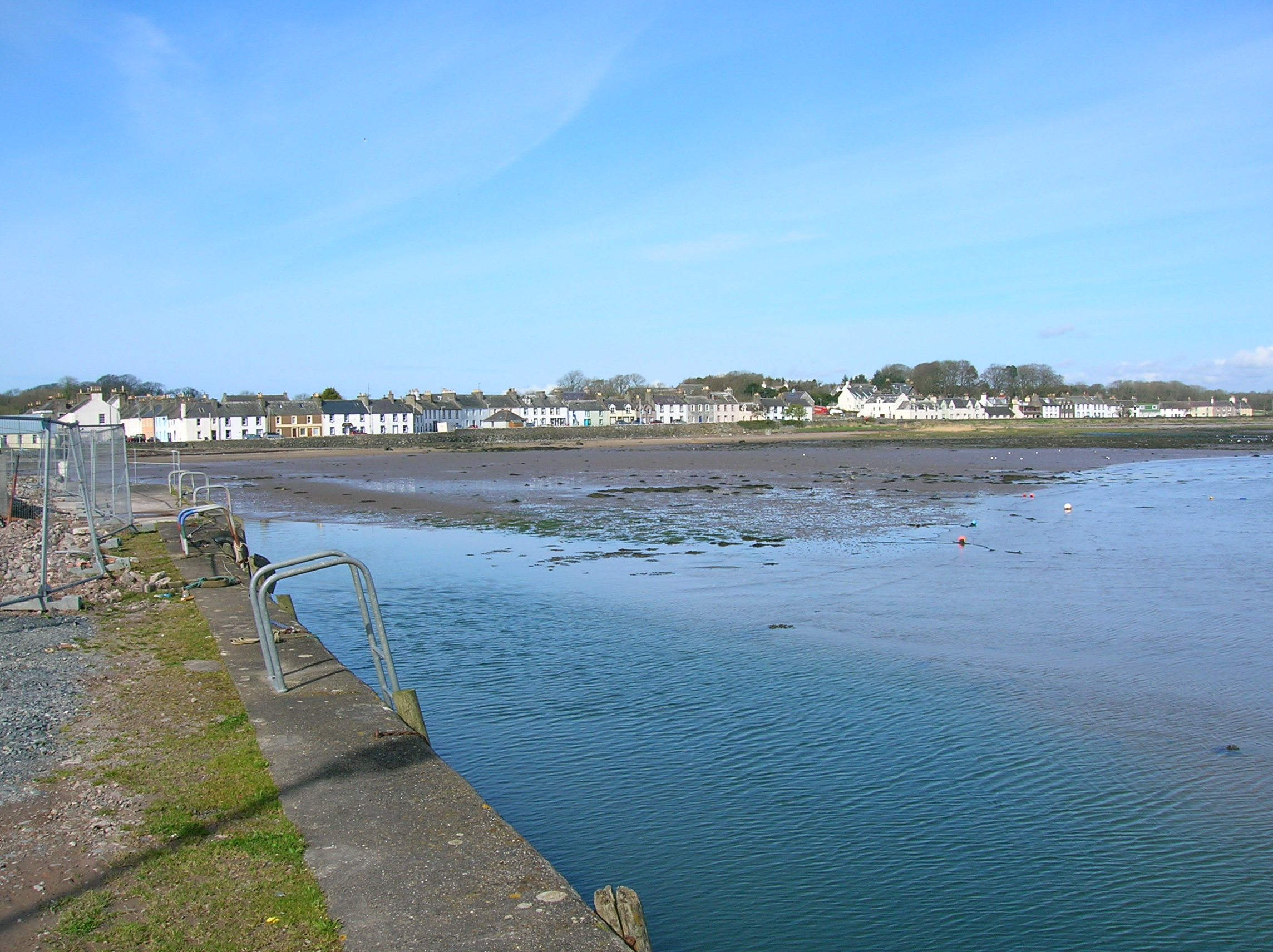 Garlieston village from the harbour. The Machars, Dumfries and Galloway, Scotland